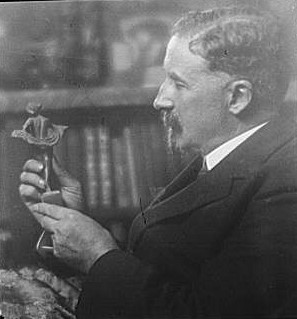 Title Portrait photograph of Paris Singer Contributor Names Genthe, Arnold, 1869-1942, photographer Created / Published between 1916 and 1942; from a negative taken 1916 Sept. 30. Format Headings Lantern slides. Portrait photographs. Notes - Title devised. - Purchase; Genthe Estate; 1942 or 1943. - ID: LC-G432-1578-A; 1916 Sept. 30 Medium 1 slide : lantern ; 4 x 5 in. or smaller. Call Number/Physical Location LC-G4085- 0377 [P&P]